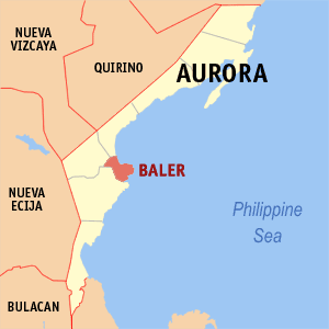 Map of Aurora showing the location of Baao